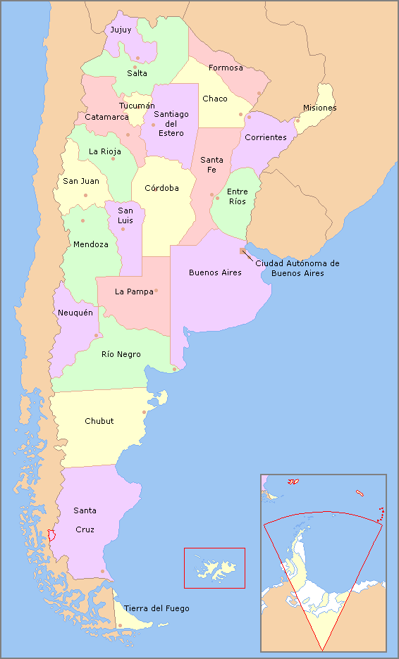 Map of the Argentine Provinces with their names in Spanish.